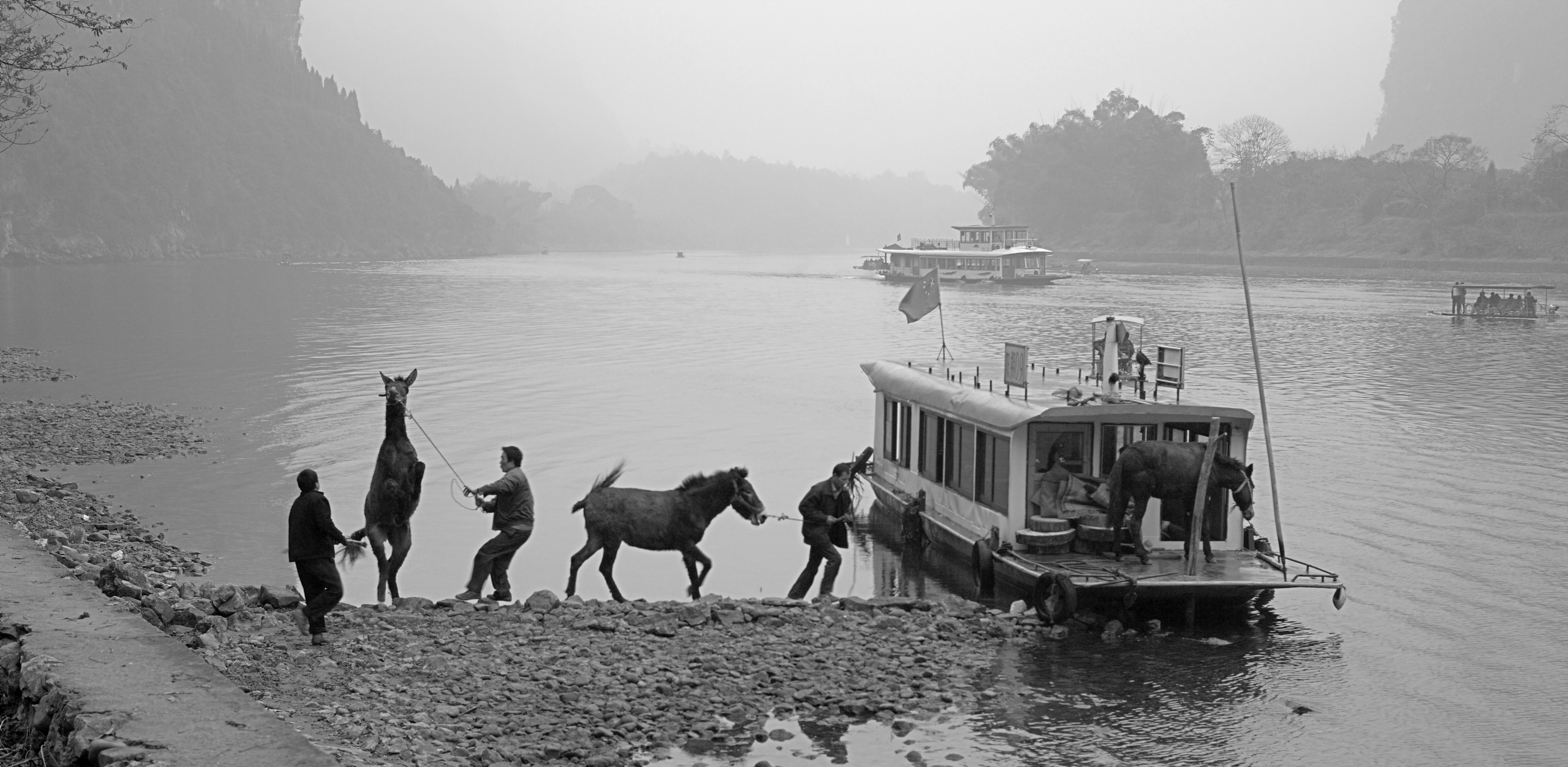 Some people are trying to push some horses to go on a boat to cross the river. Photograph has been taken in country side of China, near Yangshuo.